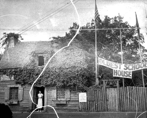 Oldest Wooden Schoolhouse structure in St Augustine Florida. Glass negative.